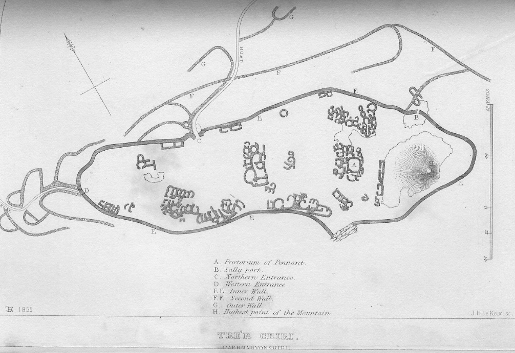 çArch Camb Vol 2 1872 pg67